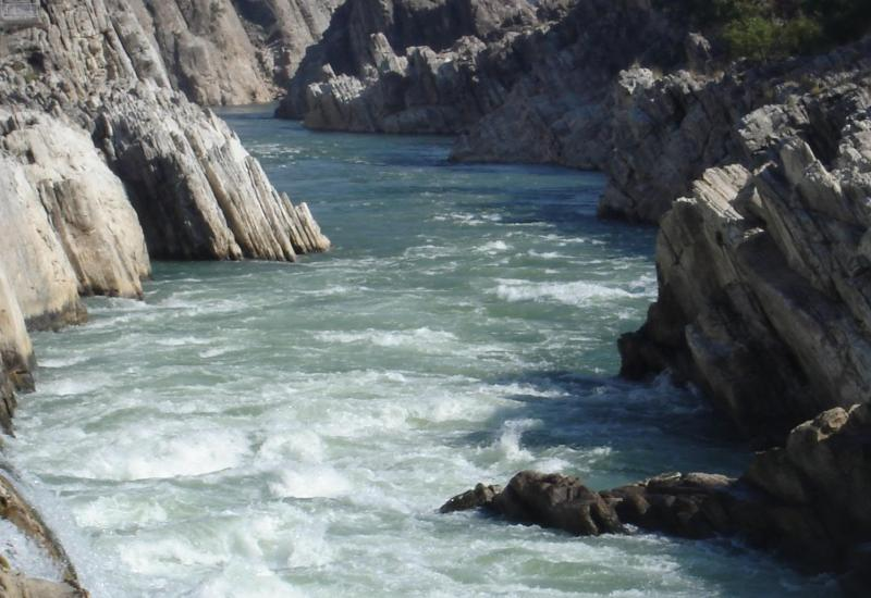 दृश्य